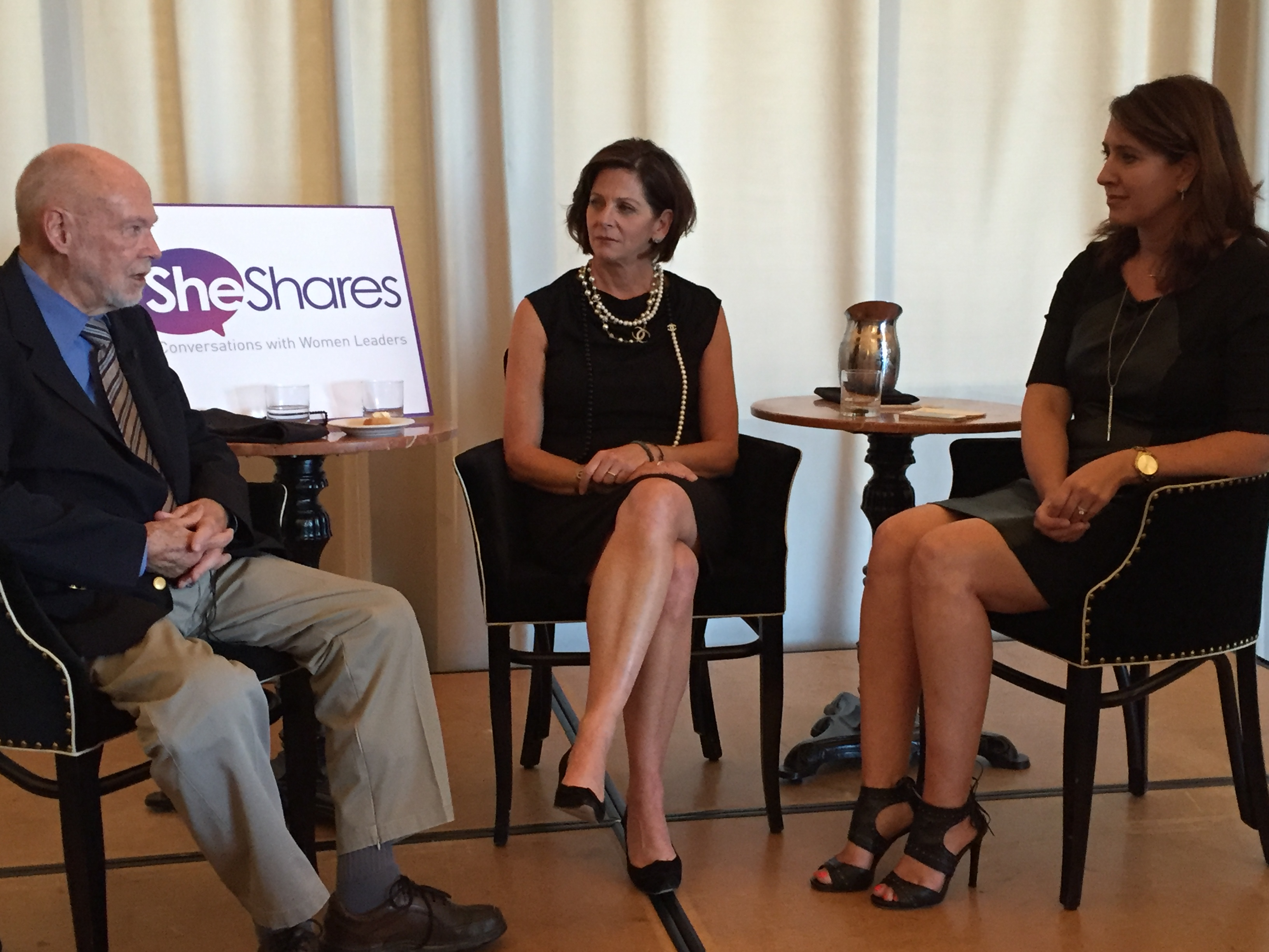 June 23, 2016 - She Shares event with Karen Skelton and her father, George Skelton